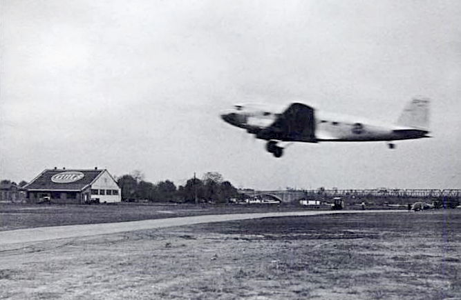 A Douglas DC-2 passenger aircraft takes off from Washington-Hoover Airport in Washington, D.C., in the United States in 1935. The plane is passing over Military Road, a public highway which passed directly across the runway between 1933 (when the airport was formed) and 1938. Highway Bridge (now known as the 14th Street Bridge) over the Potomac River can be seen in the background.